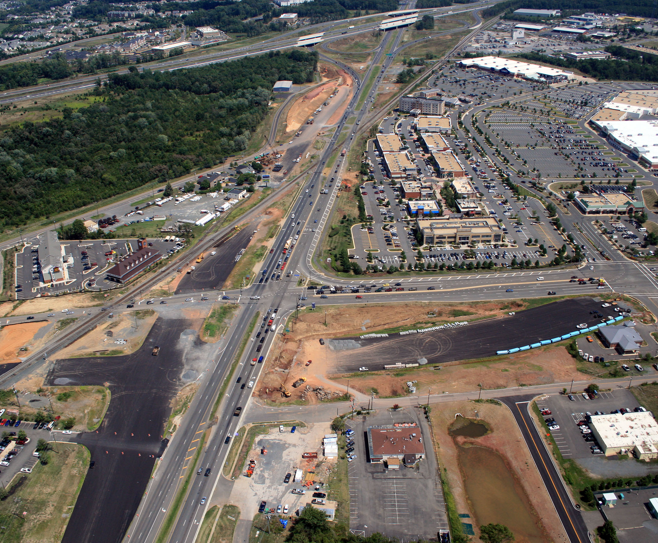 Aerial view of the Gainesville, Virginia interchange early in construction in 2011